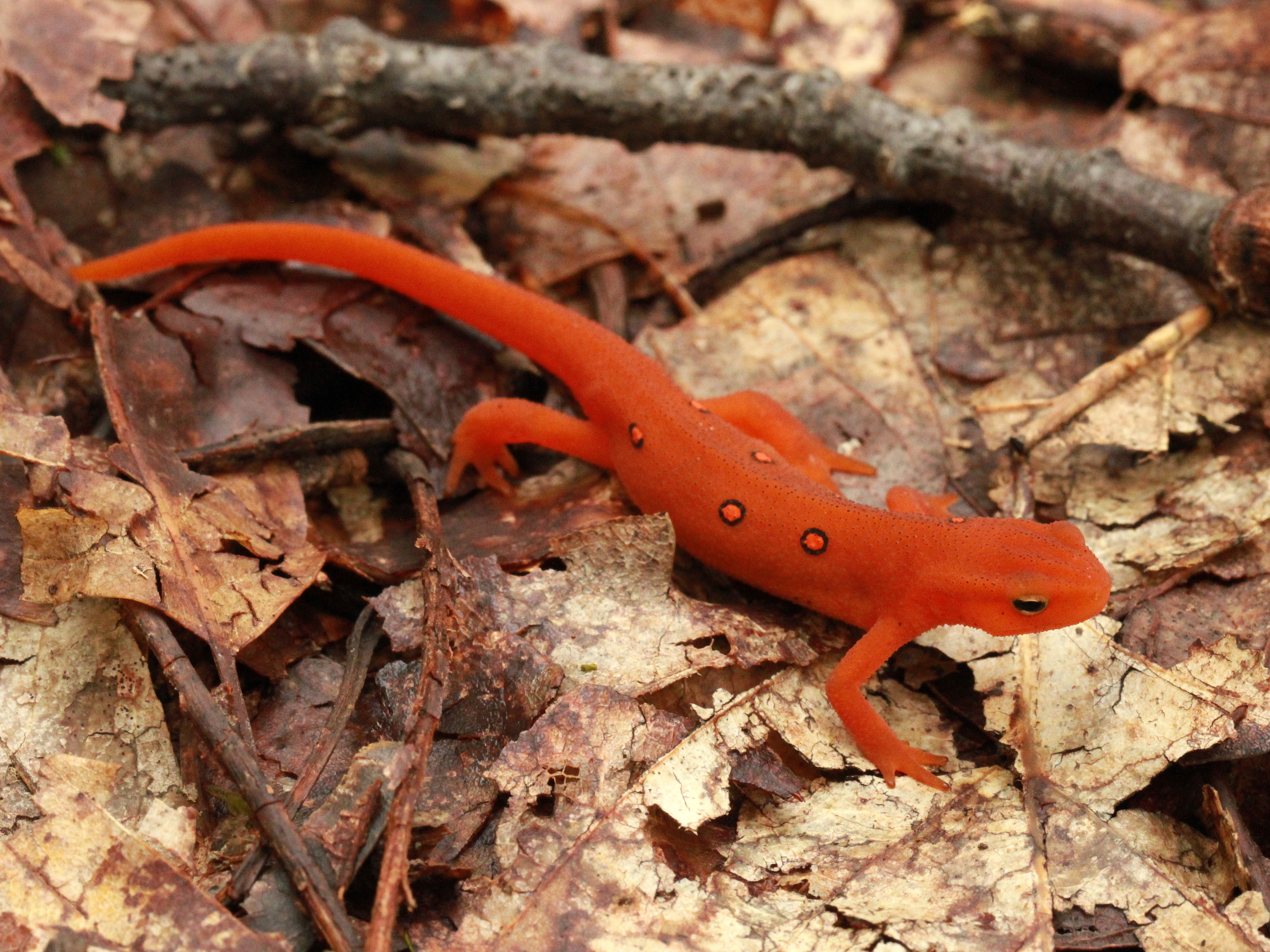 An Eastern Newt (Notophthalmus viridescens viridescens) in the "red eft" stage on North Fork Mountain in eastern West Virginia on September 3, 2012. The newt was only about 50 metres (160 ft) away from the mountain's "Chimney Top" outcropping. Much of the mountain is part of Monongahela National Forest.